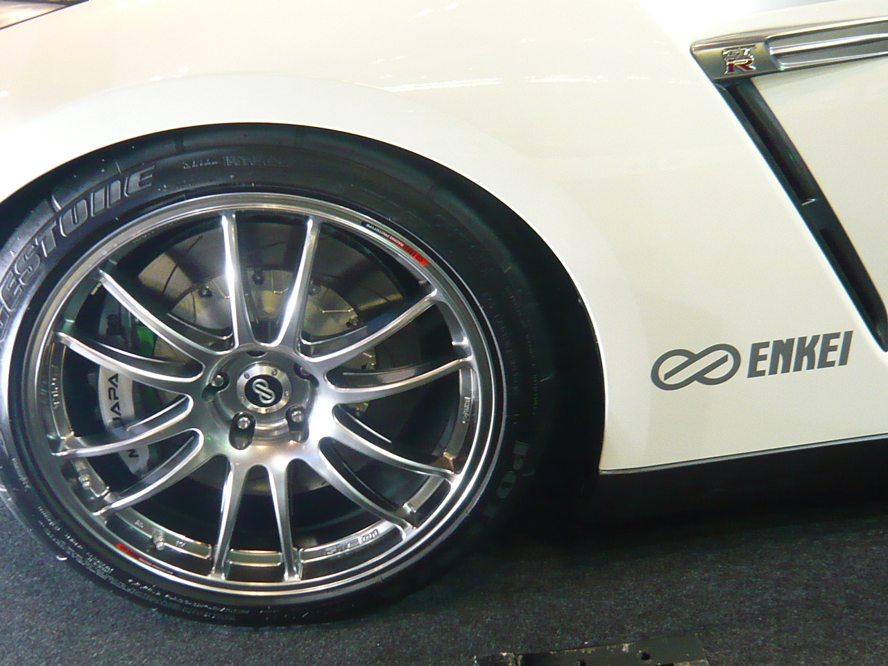 The Wheel by Enkei Corporation in Japan.